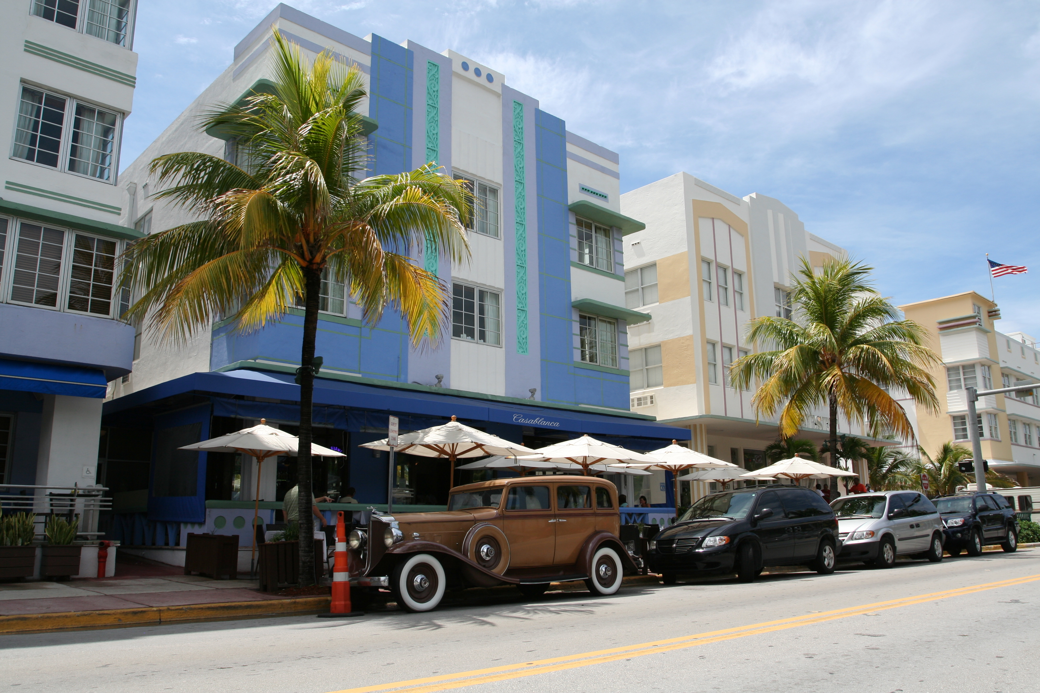 A photograph taken of Ocean Drive in Miami Beach, Florida.